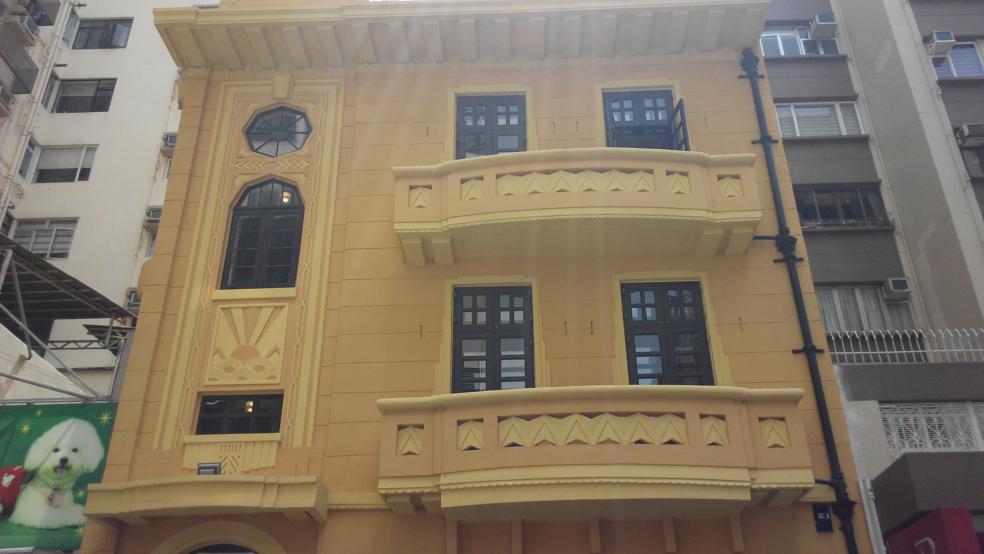 en: Happy Valley, Hong Kong, 跑馬地 Yuk Sau Street 毓秀街